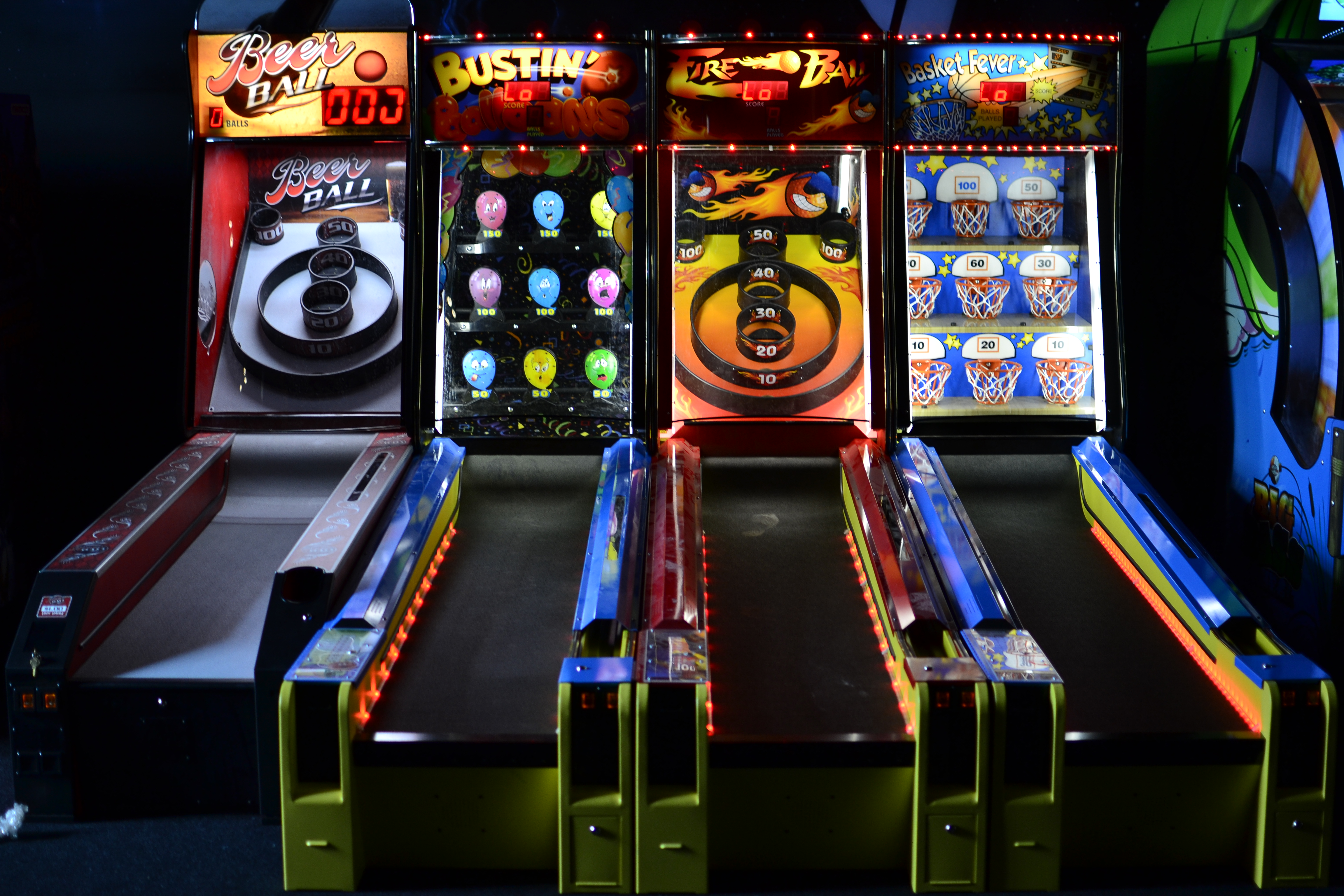 Alley Bowlers. Bay Tek Games.